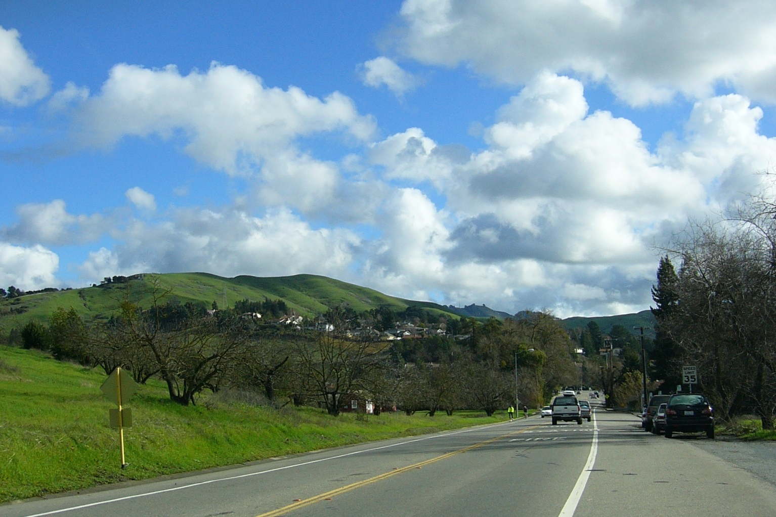 Intersection of Camino Ricardo and Moraga Way, looking east toward Moraga Road. The fire station is on the right and the old pear orchard is on the left.